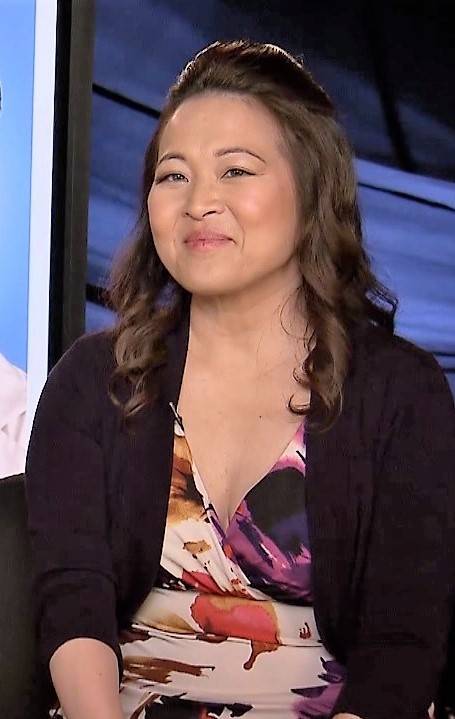 SIDEWALKS host Lori Rosales interviews Ken Jeong and Suzy Nakamura, who play husband and wife on the ABC's "Dr. Ken," a comedy series created by Jeong. They talk about working together previously and with their castmates on "Dr. Ken."